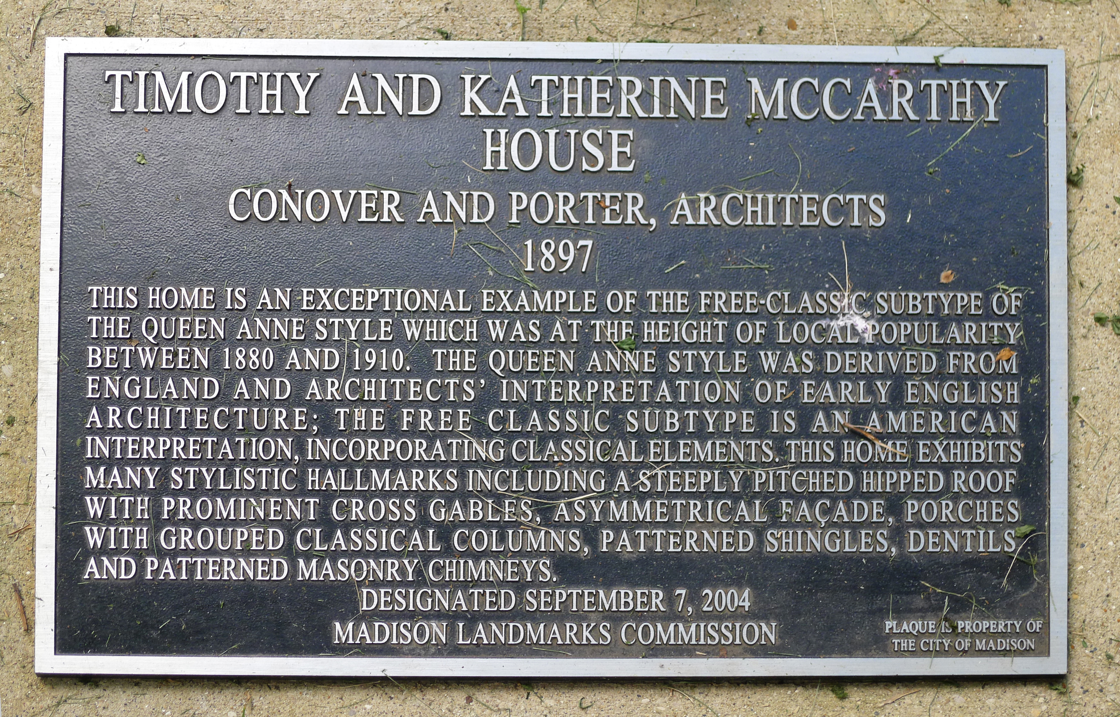 Landmark plaque at the Timothy C. and Katherine McCarthy House